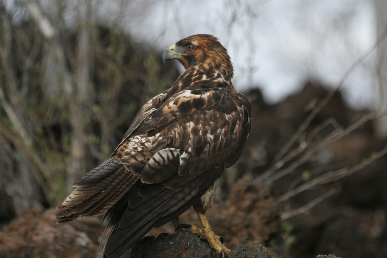 Galápagos Hawk (Buteo galapagoensis) looking for prey.